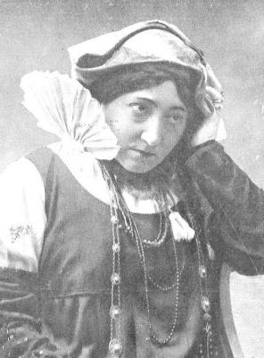 Spanish Actress Carmen Cobeña